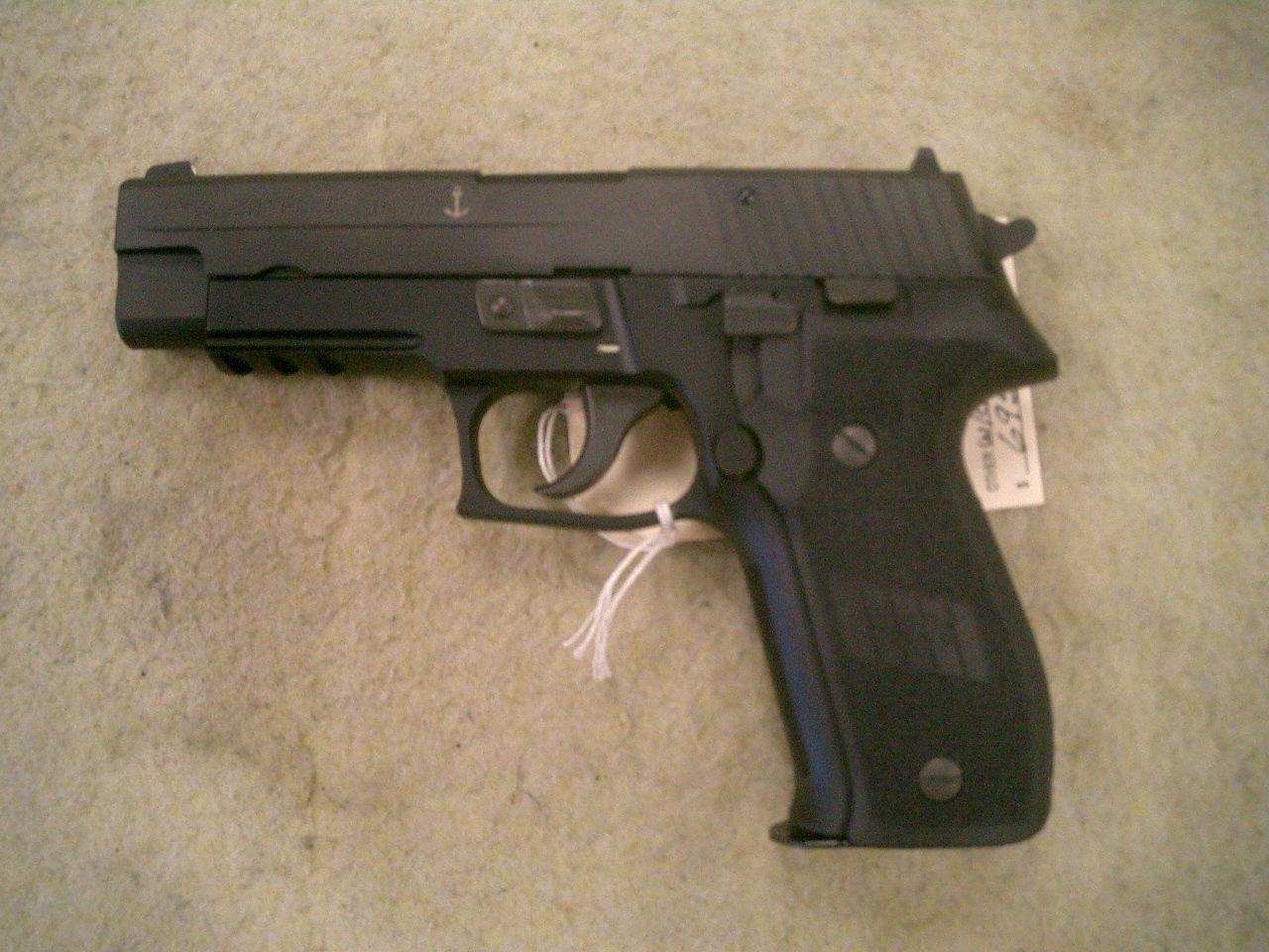 A SIG P226 Navy, taken by myself on 9/22/07.